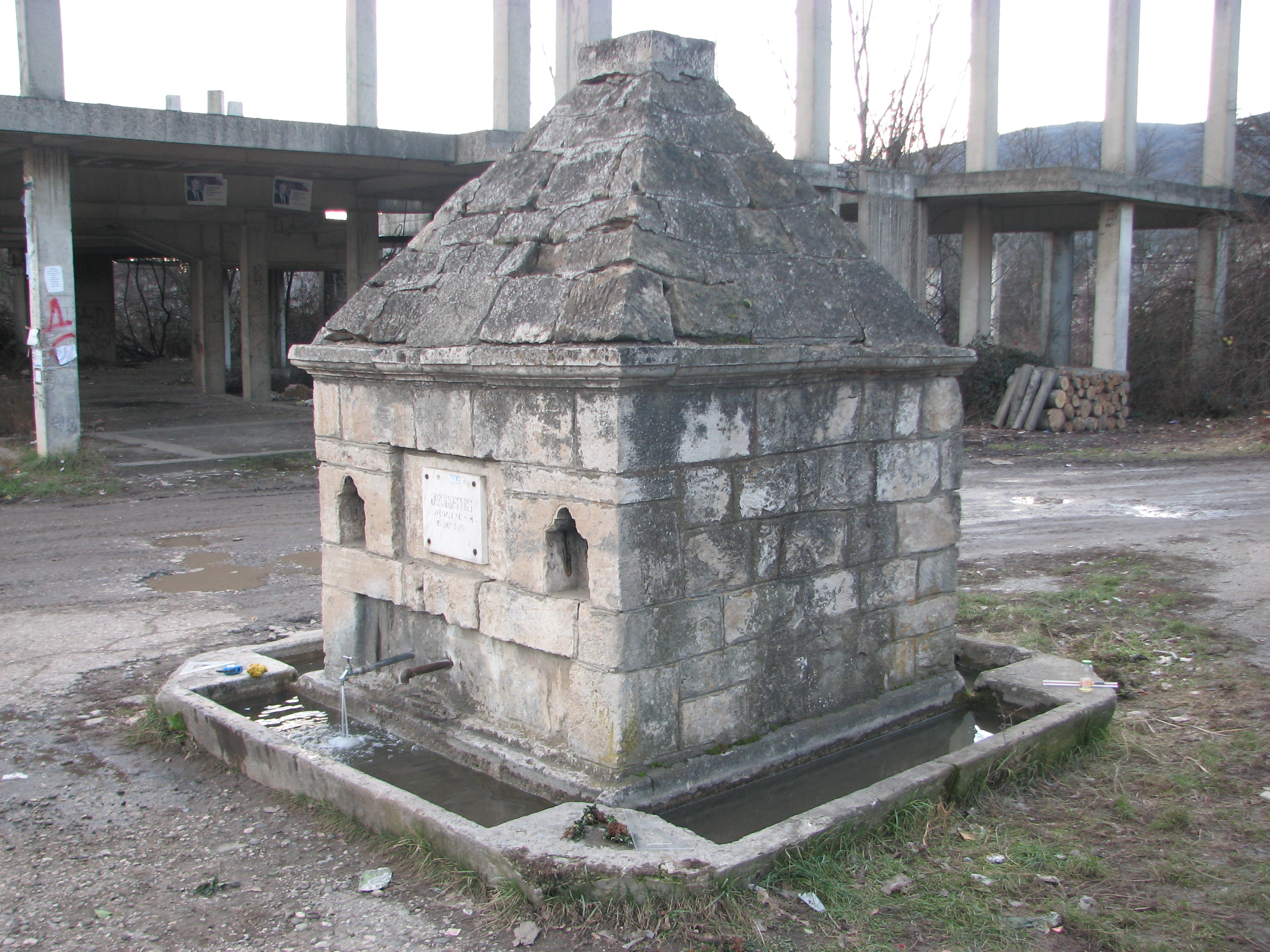 Osman Begova(Bey) Fountain near Boljevac